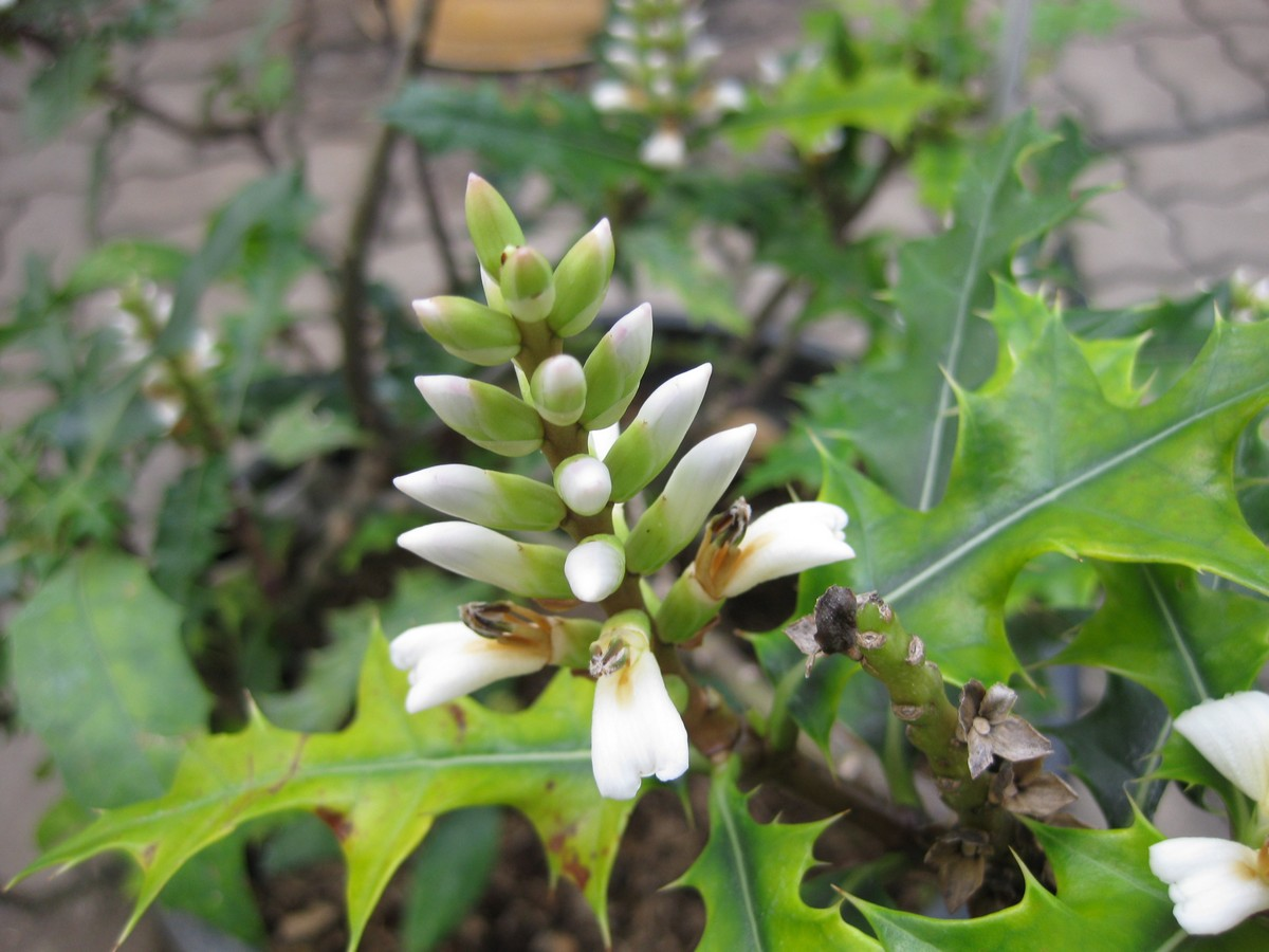 Acanthus ebracteatus. Photographed at the Queen Sirikit Botanic Garden (Chiang Mai Province, Thailand) in March